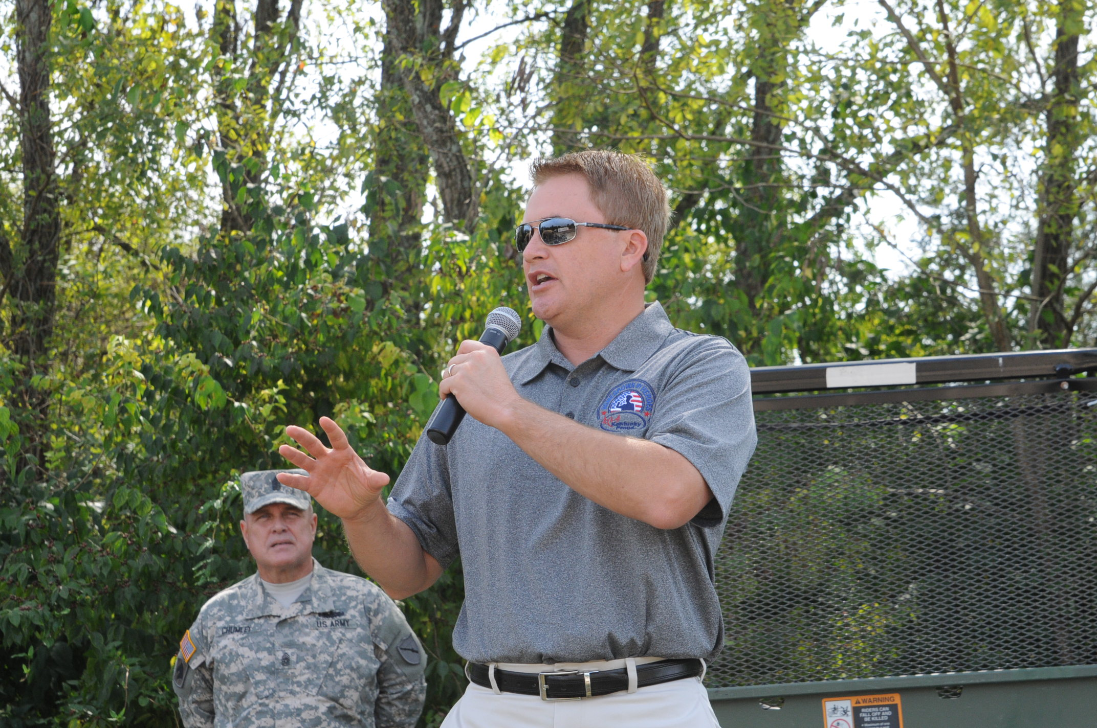 Kentucky Department of Agriculture Commissioner James Comer speaks to Soldiers of the 63rd Theater Aviation Brigade at the Hidden Valley Training Site in Powell County, Ky., Sept. 15, 2013. (U.S. Army National Guard photo by Spc. Brandy Mort)